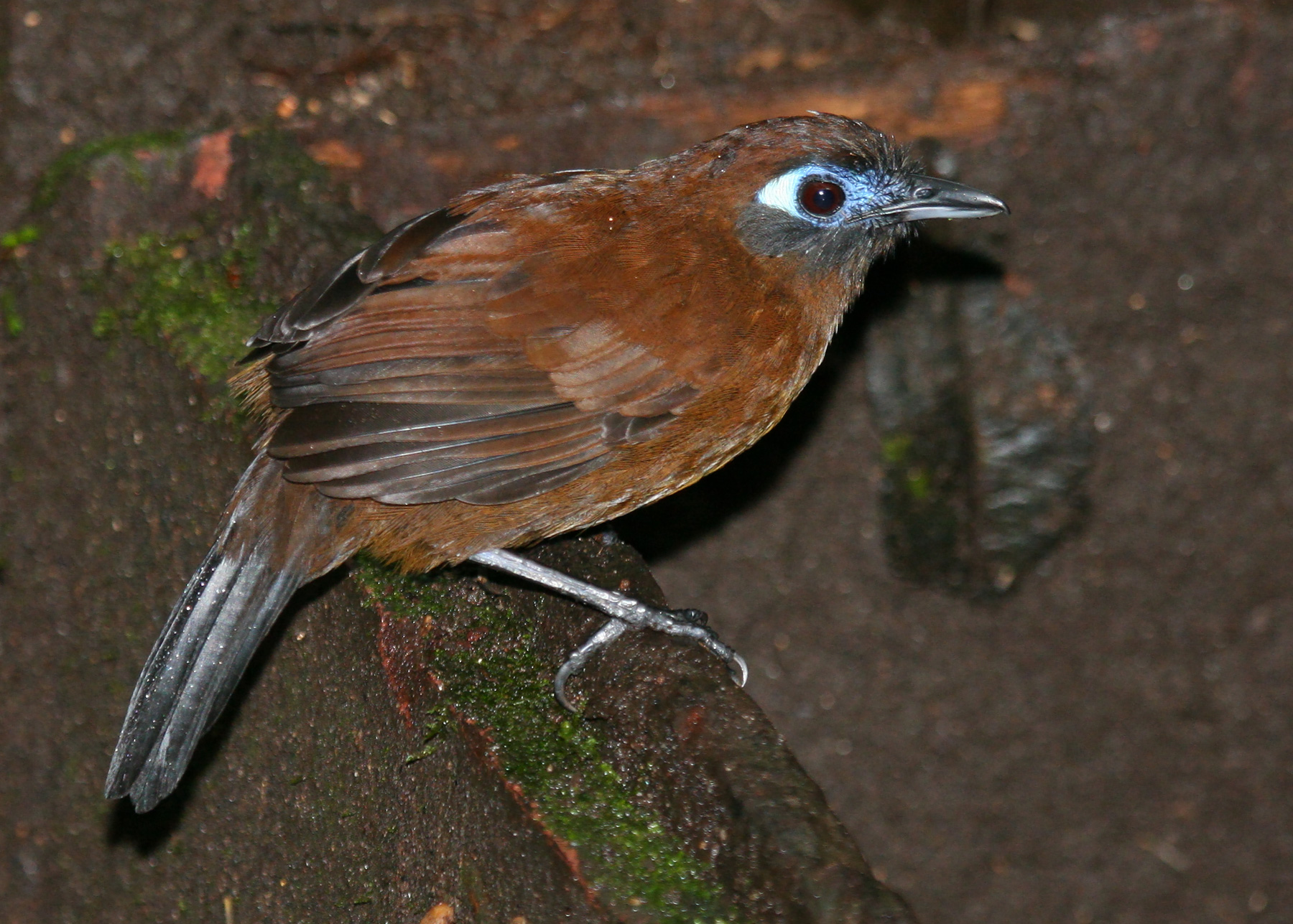 Zeledon's antbird (Myrmeciza zeledonia), Male. Tandayapa Lodge, NW Ecuador